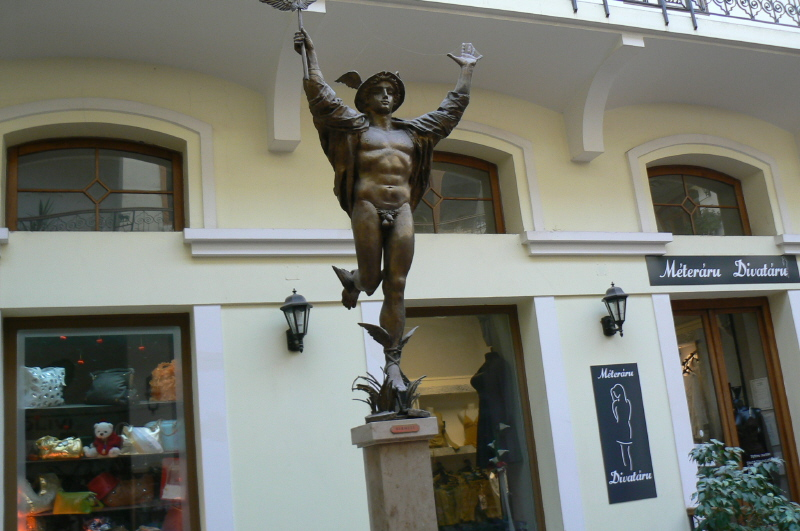 Hermes